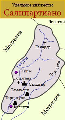 The map of Salipartiano